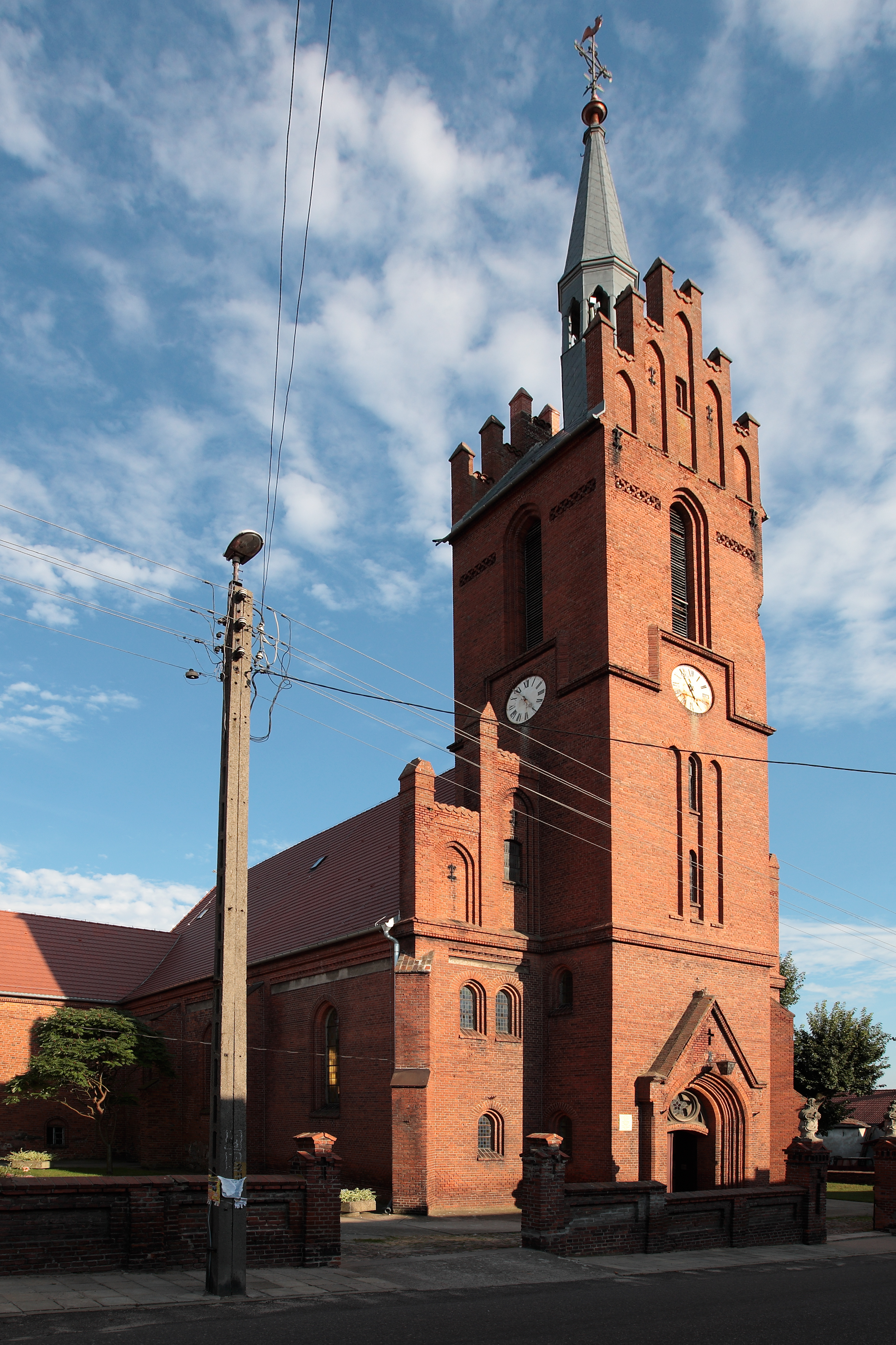 Church in Bledzew